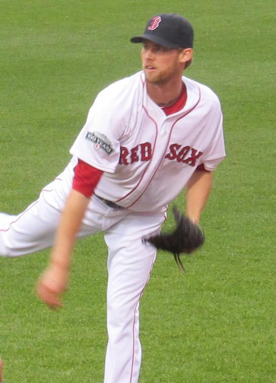 Daniel Bard warming up at Fenway Park, Boston MA on 2012-05-29